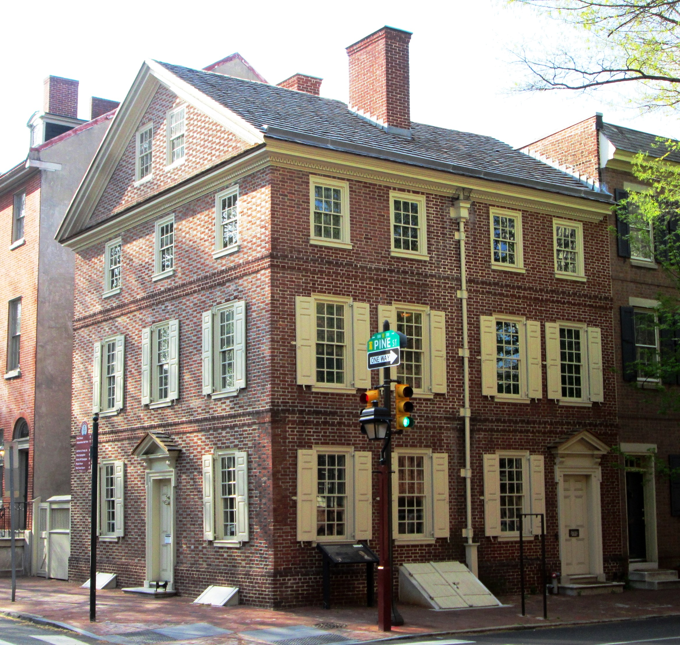 The Thaddeus_Koscuiszko_National_Memorial at the corner of S. 3rd Street in the Society Hill neighborhood of Philadelphia preserves the home of the Polish patriot and hero of the American Revolution.